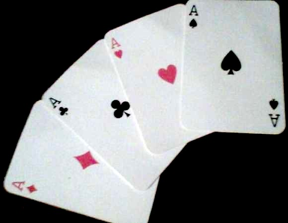 Four Aces (Ace of Diamonds, Ace of Clubs, Ace of Hearts, Ace of Spades)